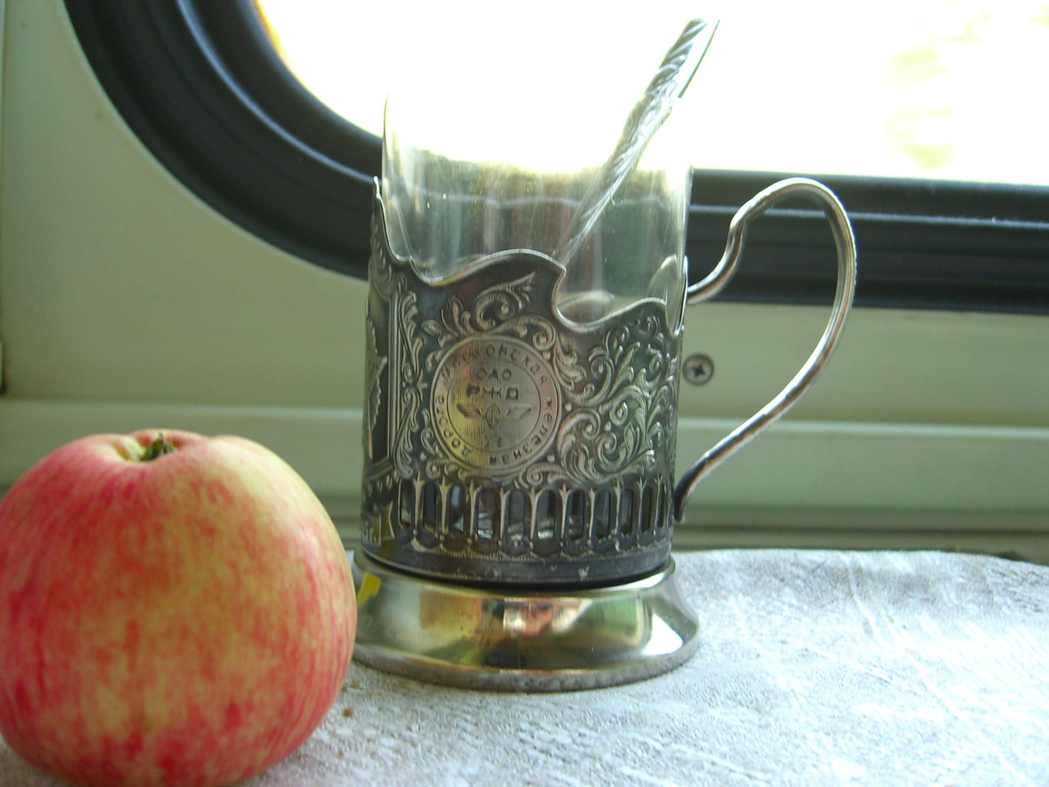 Chai served in russian trains, empty